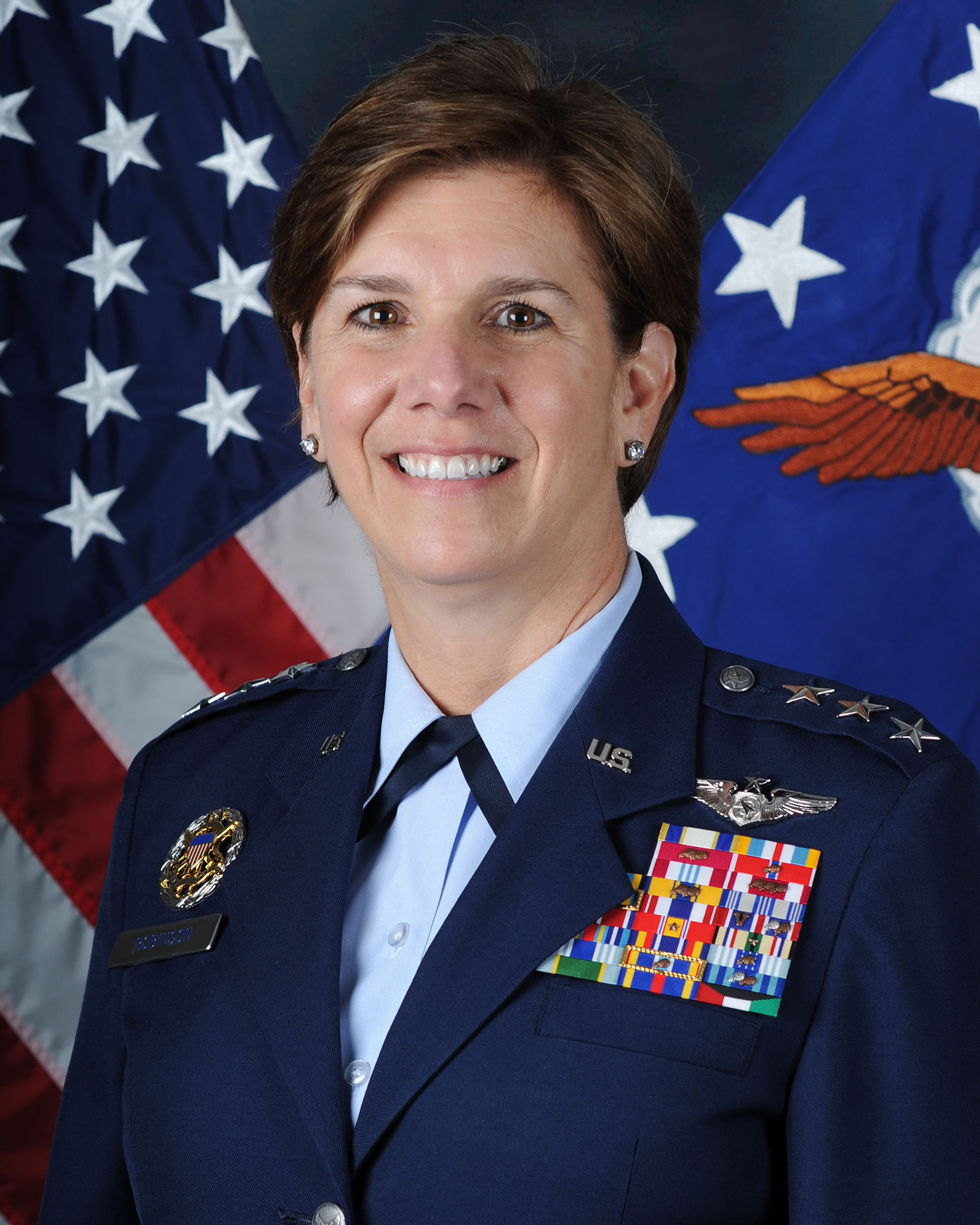 Lieutenant General Lori J. Robinson, USAFVice Commander, Air Combat Command (ACC)